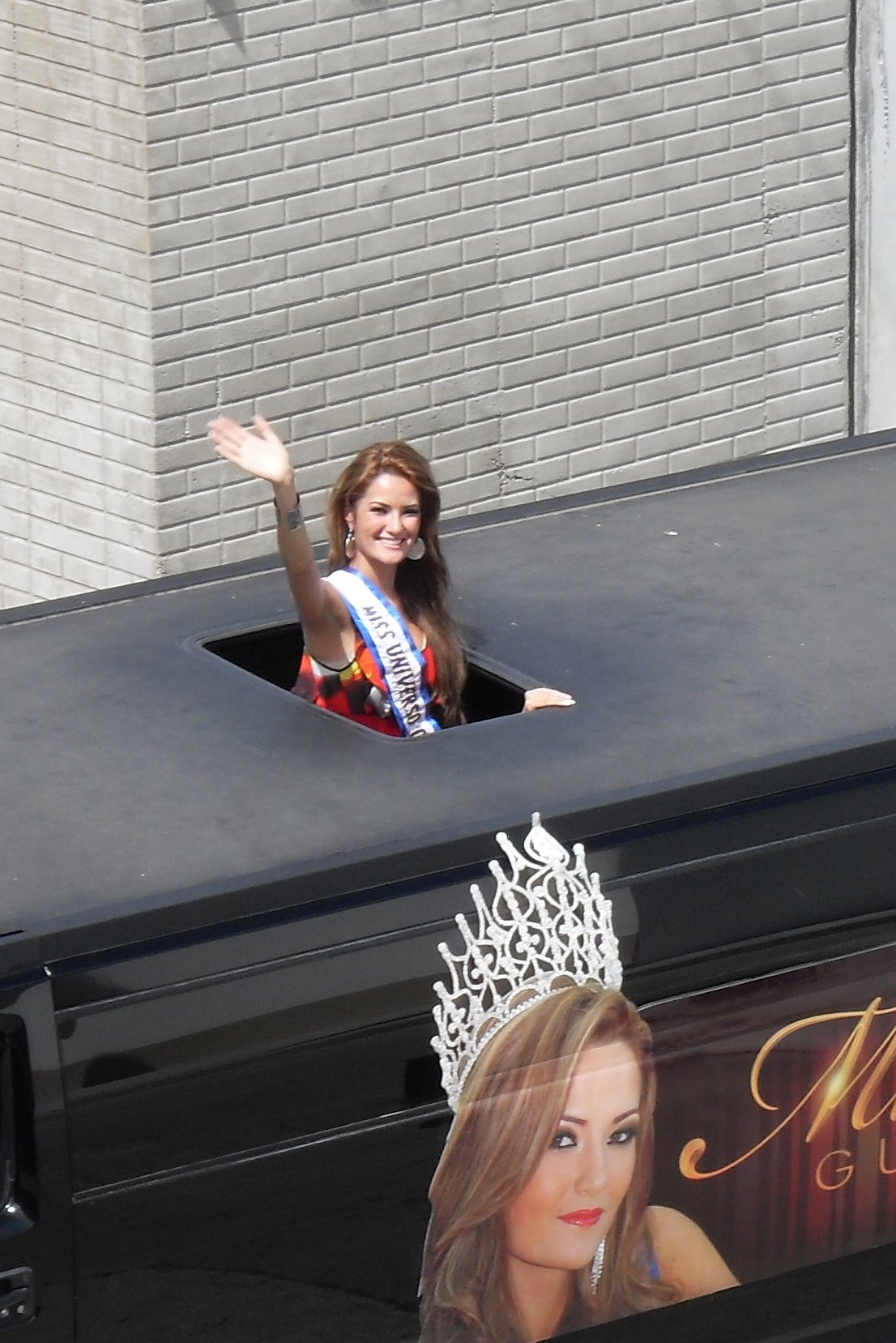 Miss Guatemala 2009 returns from the Miss Universe contest to Guatemala on August 25, 2009